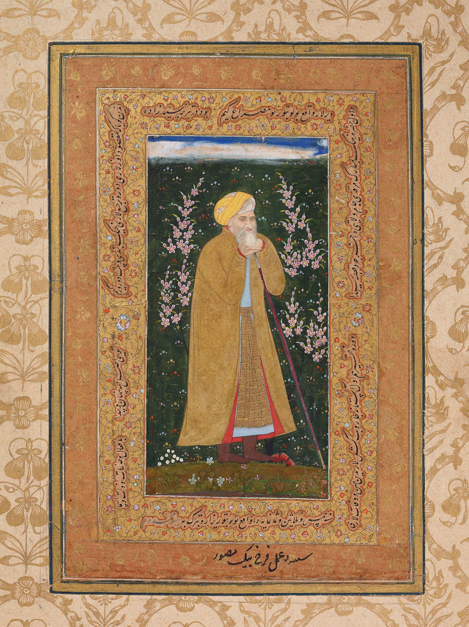 Farrukh Beg's Self-Portrait ca.1615(55.7 x 34.8 cm) Metropolitan Mus N-Y